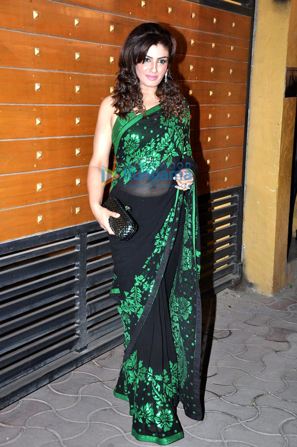 Raveena Tandon at Shivani Wedding Reception. Photo: FilmiTadka.